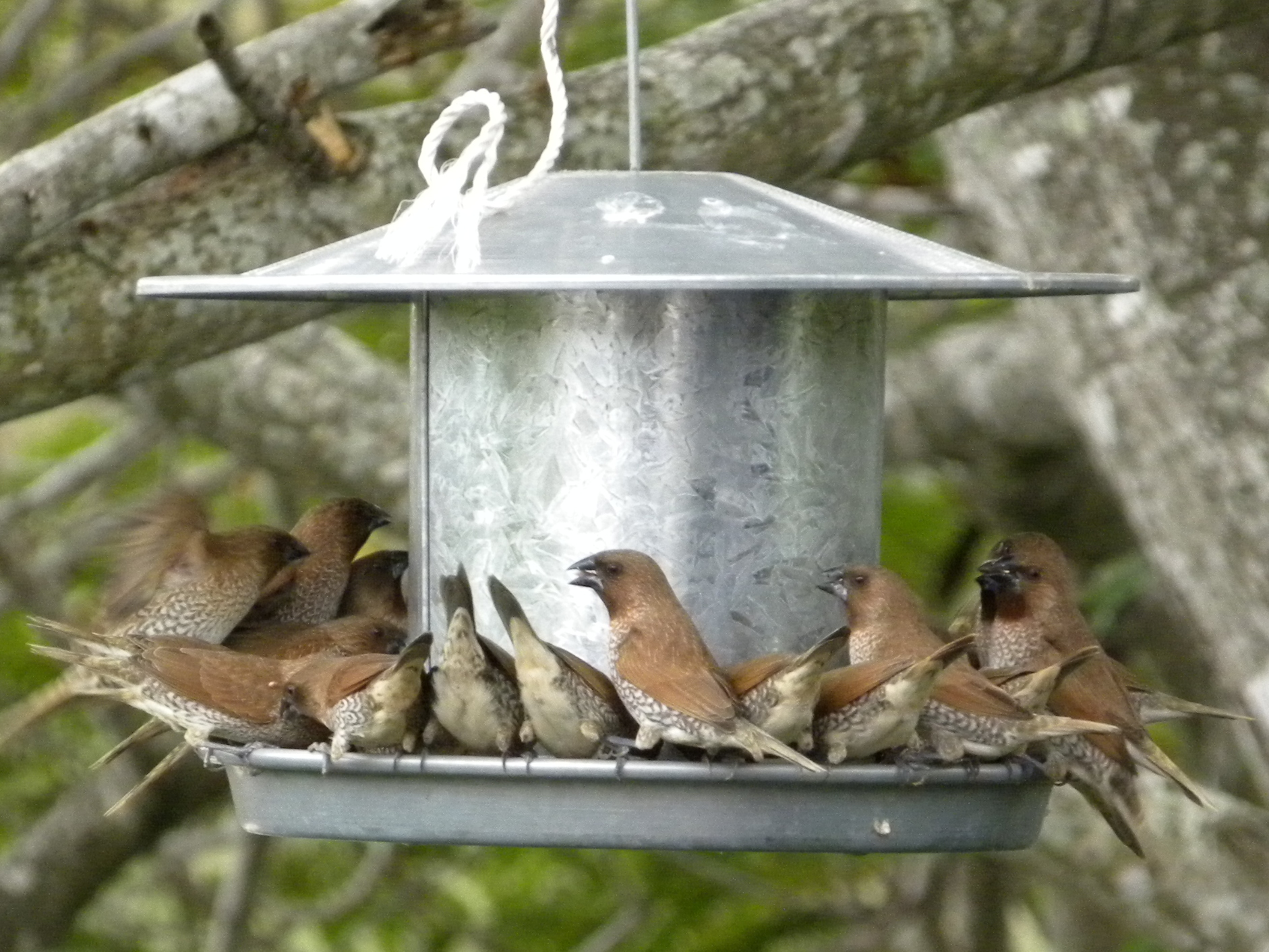 Feral Scaly-breasted Munia Lonchura punctulata (Nutmeg Mannikin) in bird-feeder, located in Central Queensland, Australia